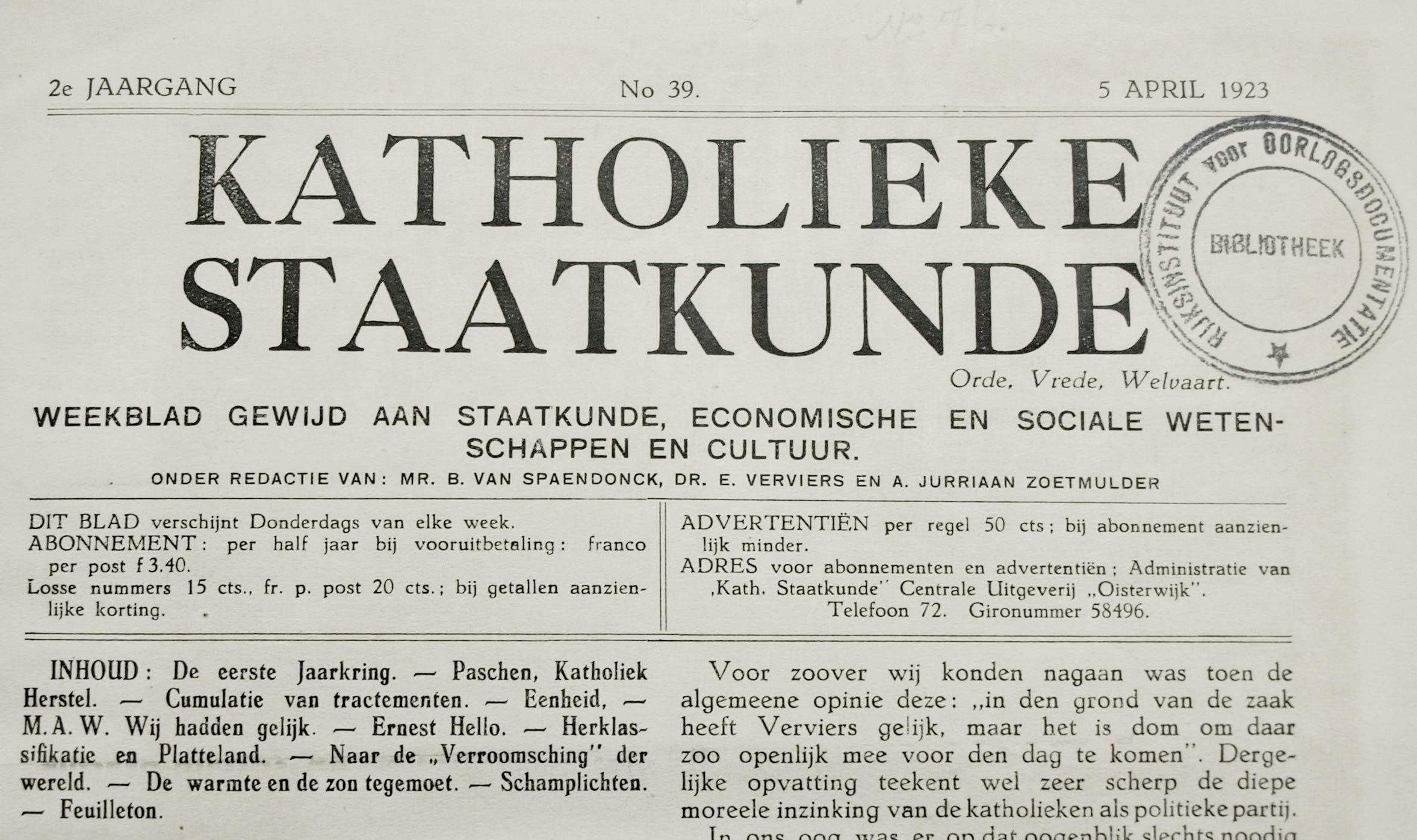 header of Katholieke Staatkunde, Dutch magazine – nr. 39, 5 april 1923